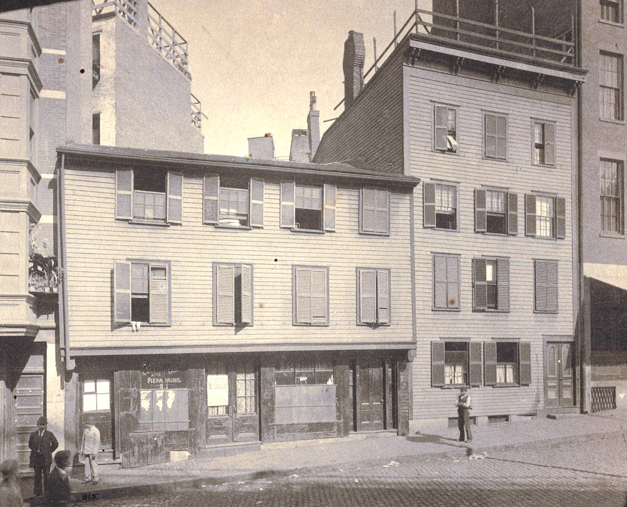 Paul Revere House, North Square, North End, Boston MA. 1898 (approximate). Photograph.